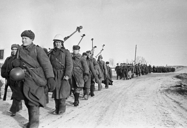 “Soldiers of mopping up anti-tank battalion”. The Great Patriotic War of 1941-1945. Western Front. Soldiers of mopping up anti-tank battalion moving toward Vyazma after battles for Rzhev.